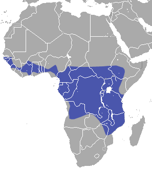 Angolan Rousette (Lissonycteris angolensis) range